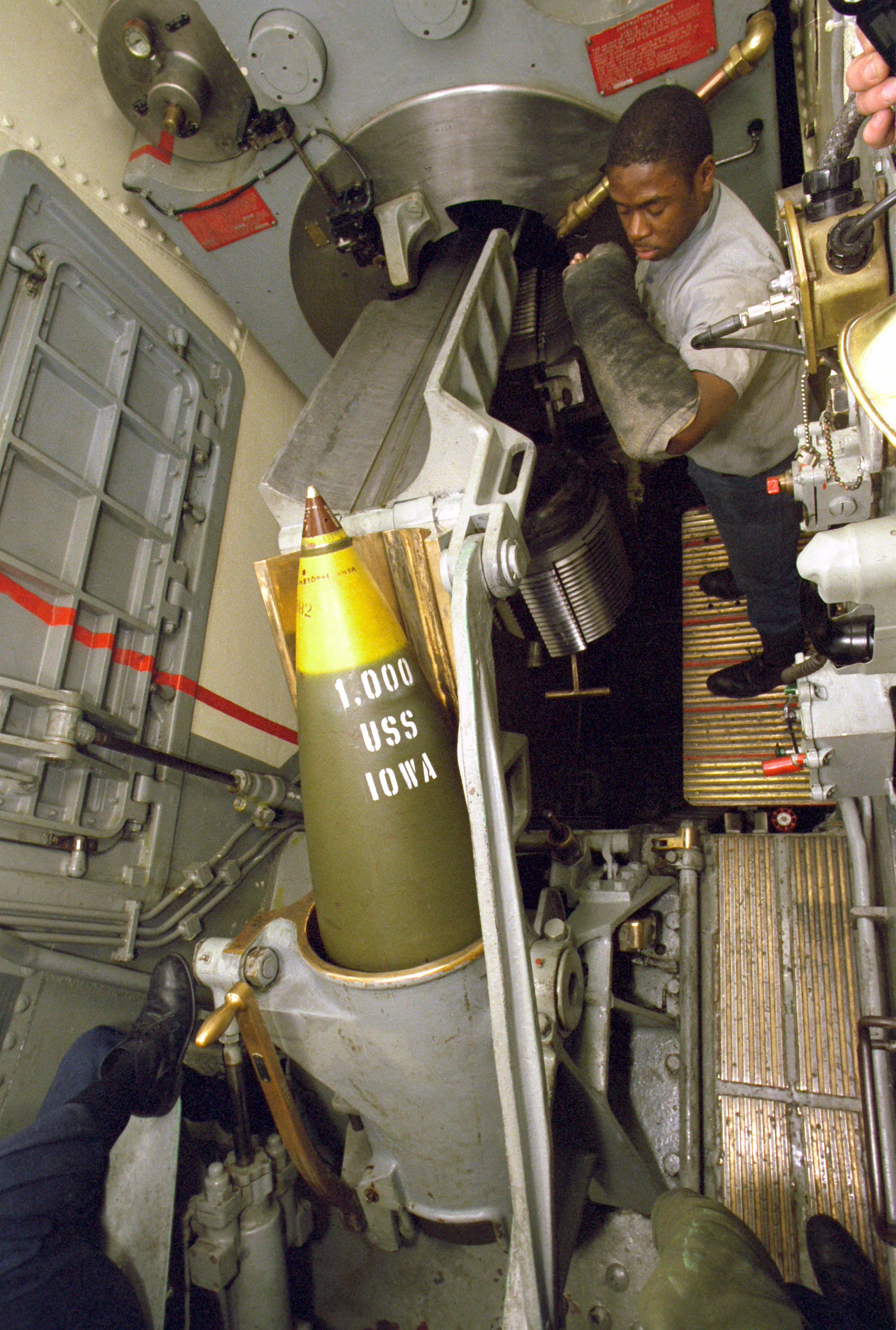 DN-SC-91-03642 - A 1,900-pound high capacity (HC) projectile is hoisted up to the spanning tray of the center Mark 7 16-inch/50-caliber gun in the No. 2 turret aboard the battleship USS IOWA (BB-61). This particular projectile will be the 1,000th round fired by the IOWAs 16-inch guns since the ship's recommissioning.